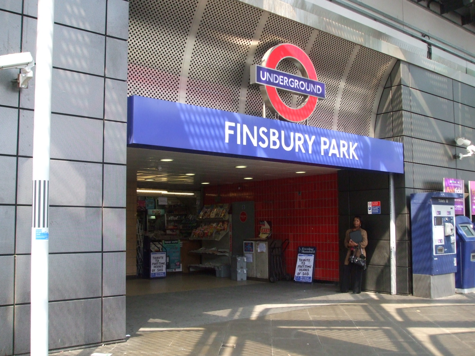 Entrance to Finsbury Park tube station, on Station Place. Railway station entrance just to the right of this, out of shot